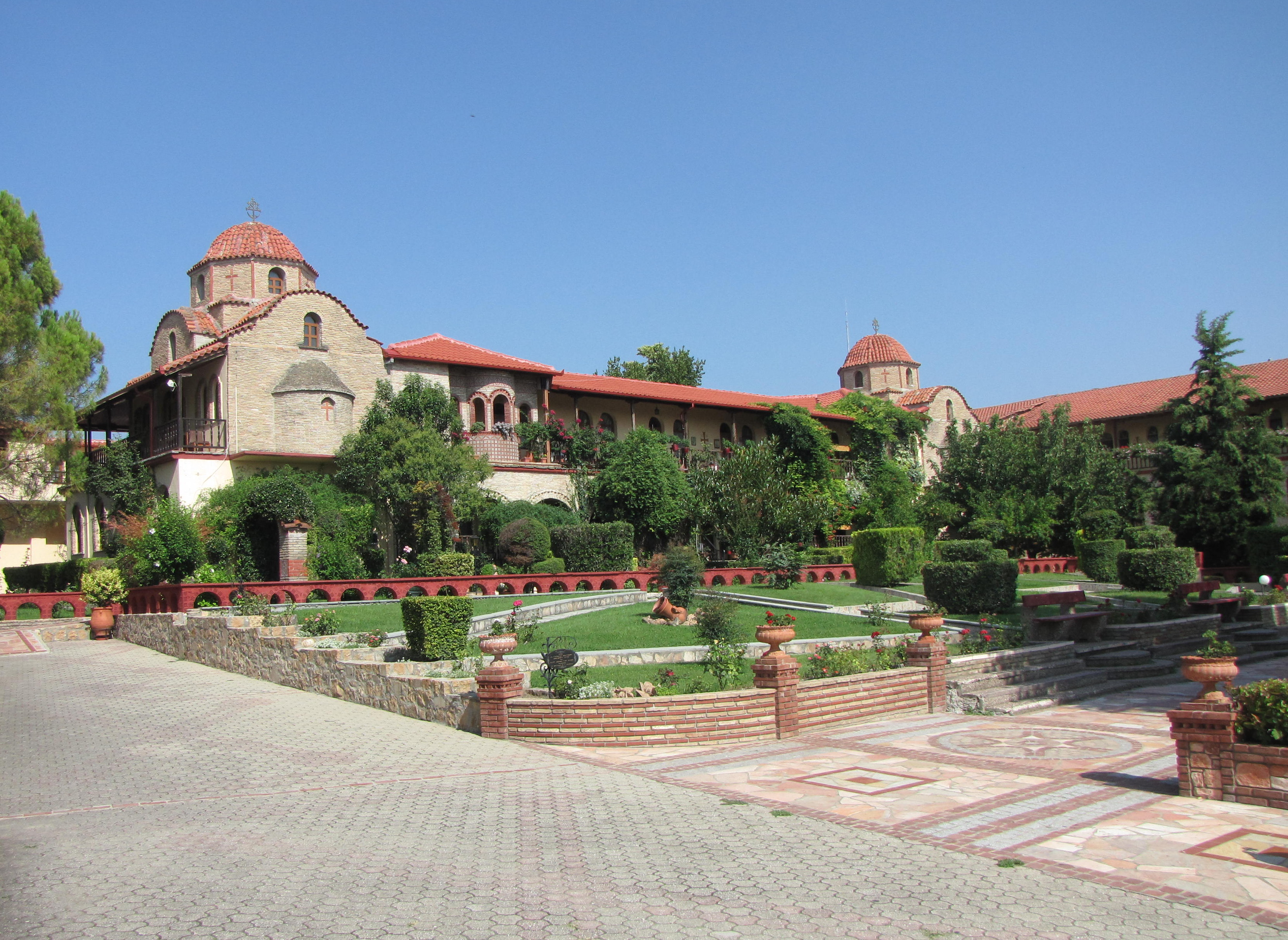 Monastery Ephraim, Kontariotissa